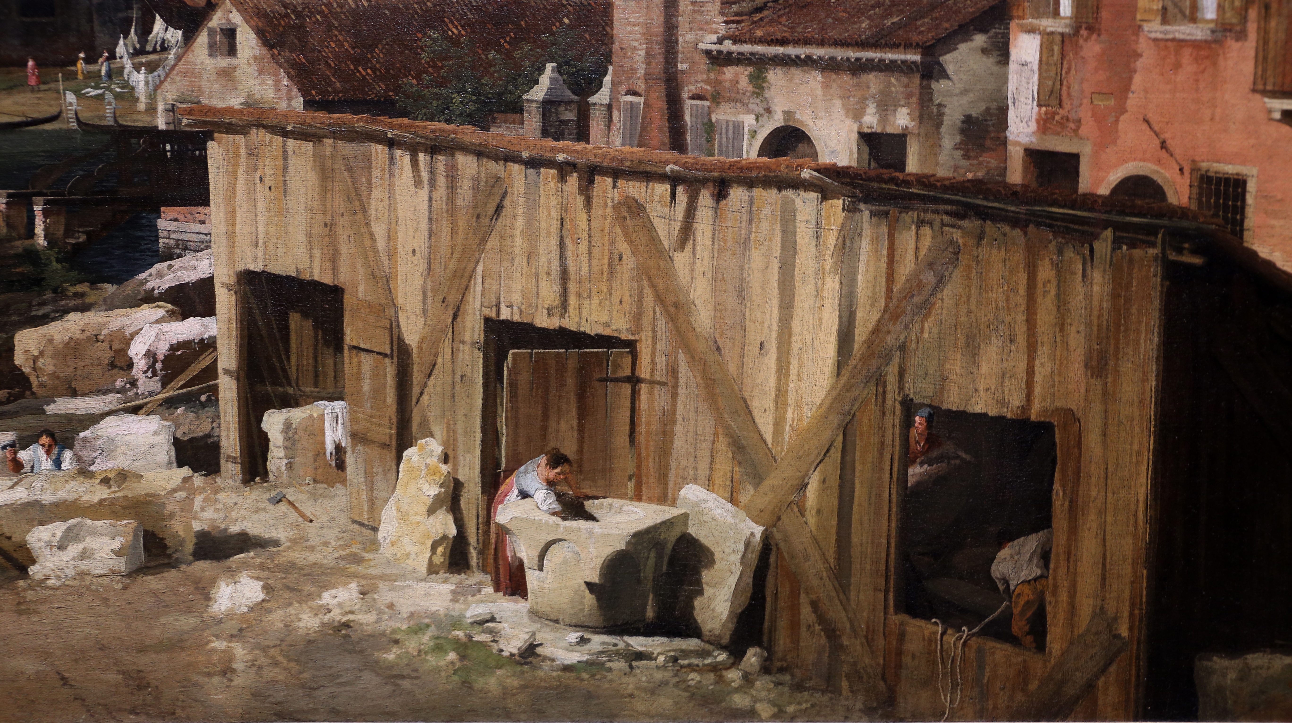 Italian Rococo paintings in the National Gallery, London